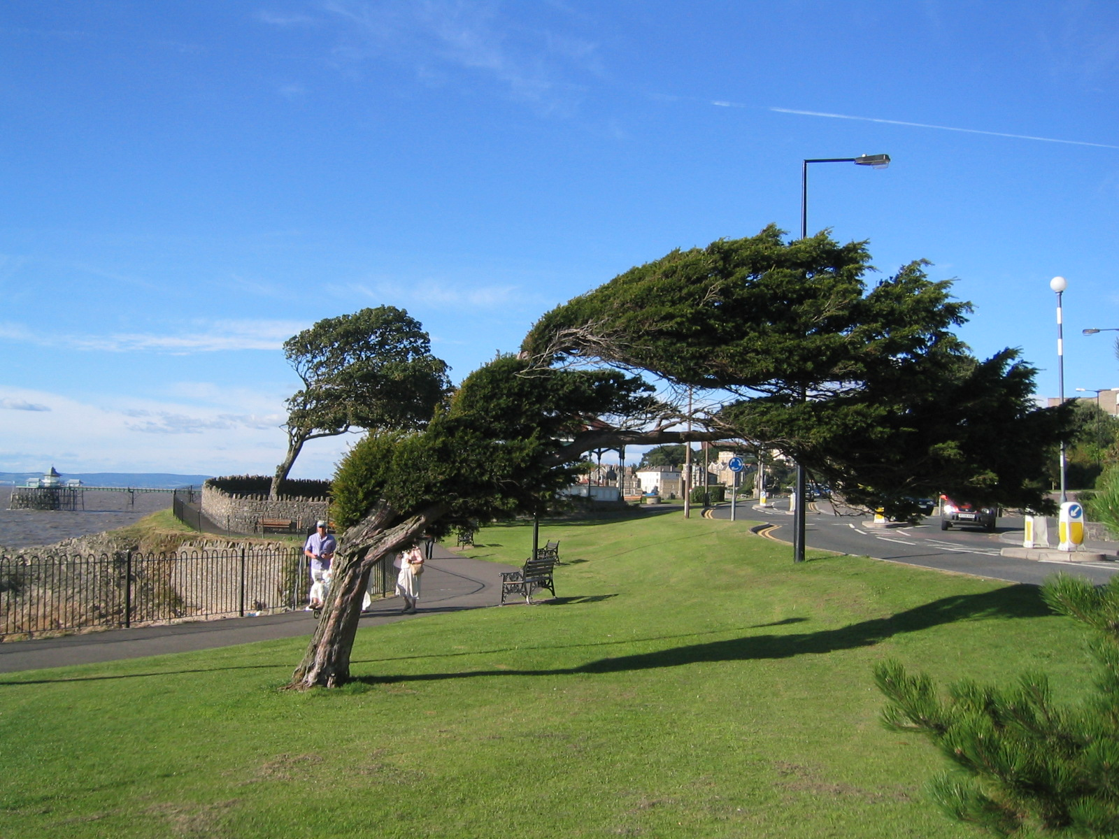 A windswept tree (Taxus baccata) near the seafront at Clevedon, North Somerset, England. Clevedon Pier can be seen in the left of the photograph. Photo taken by User:AlanFord 2005-08-05.